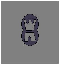 Hallmark of anonimous makers. 1798-1814